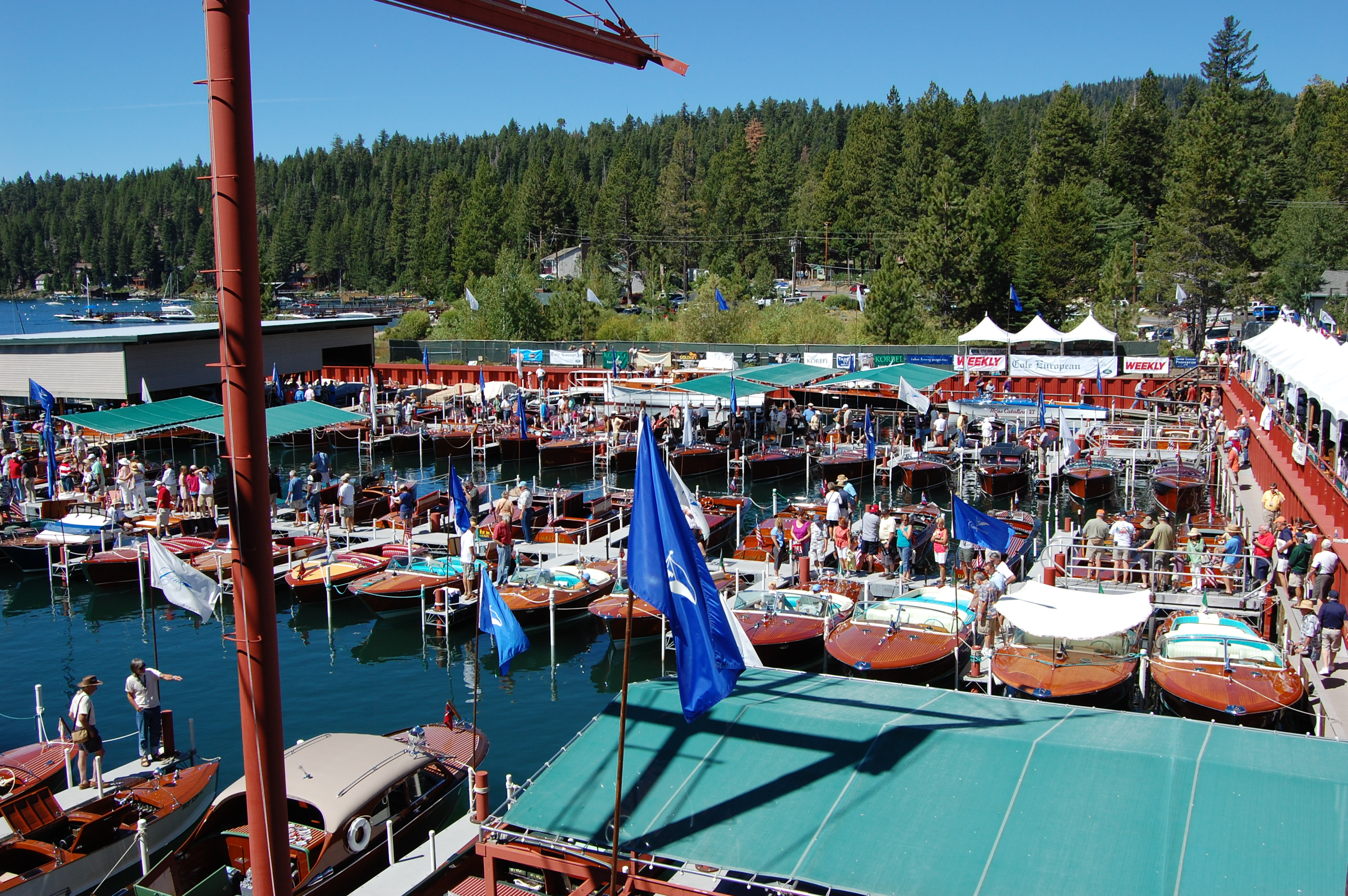 The 2011 Lake Tahoe Concours d'Elegance as seen from above